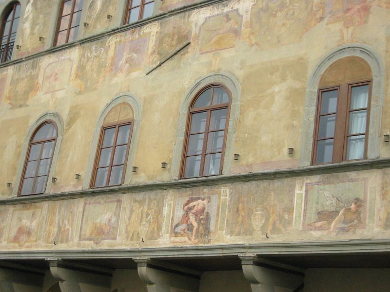 see above